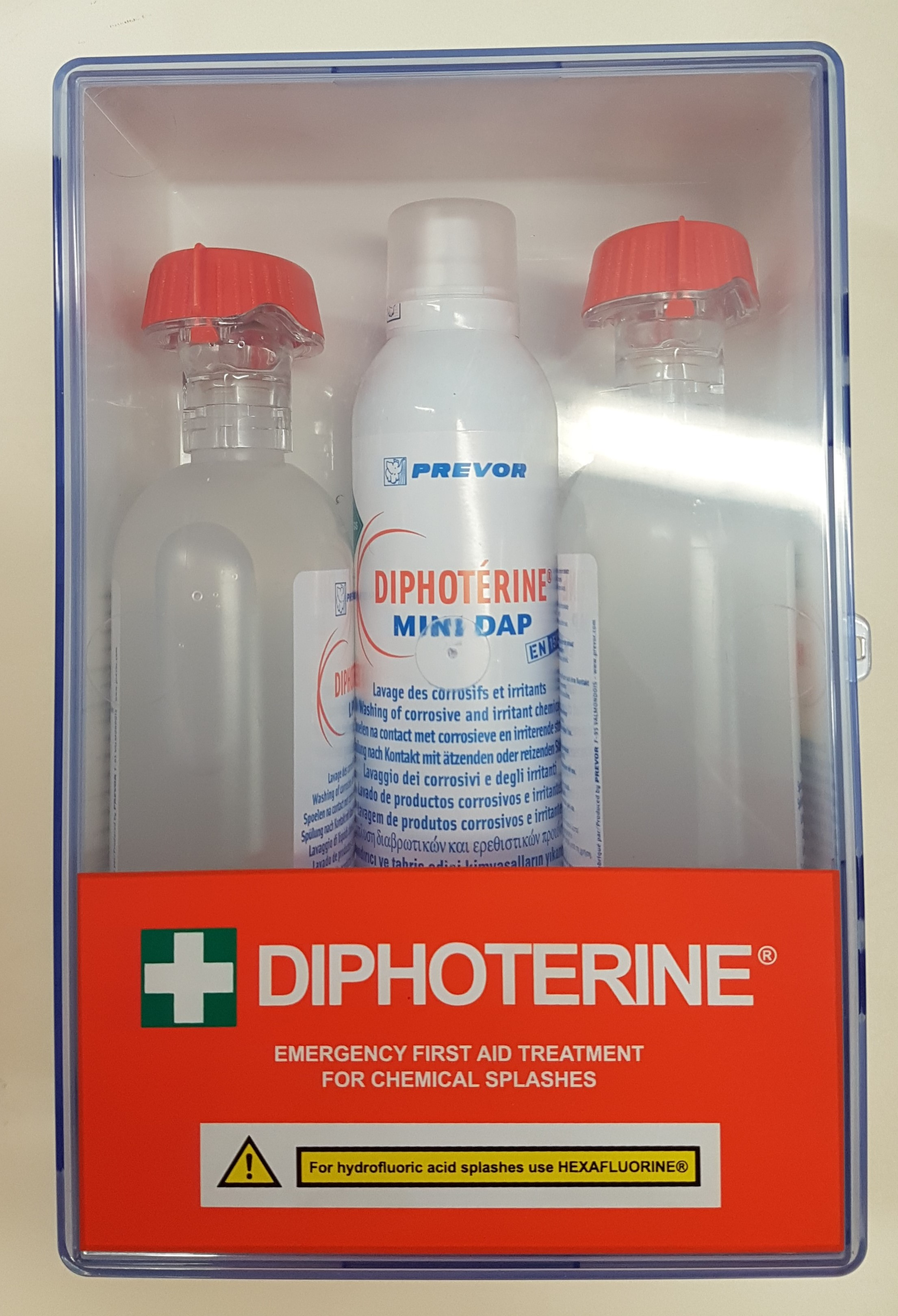 A wall-mounted box containing two bottles and one spray-can of Diphoterine, an amphoteric solution for the emergency treatment of chemical injuries to the eyes and body.